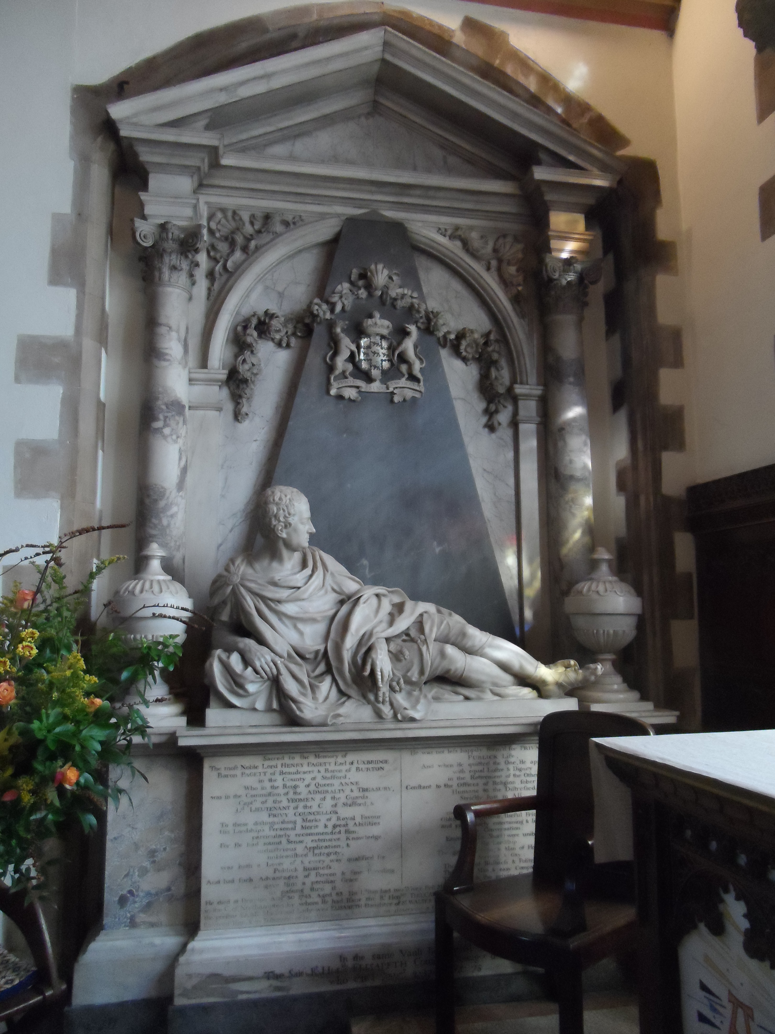 Henry Pagett memorial in St John the Baptist's Church, Hillingdon. For the inscription, see File:Henry Pagett memorial in St John the Baptist's Church, Hillingdon 02.jpg.